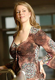 German actress Gerlinde Jänicke